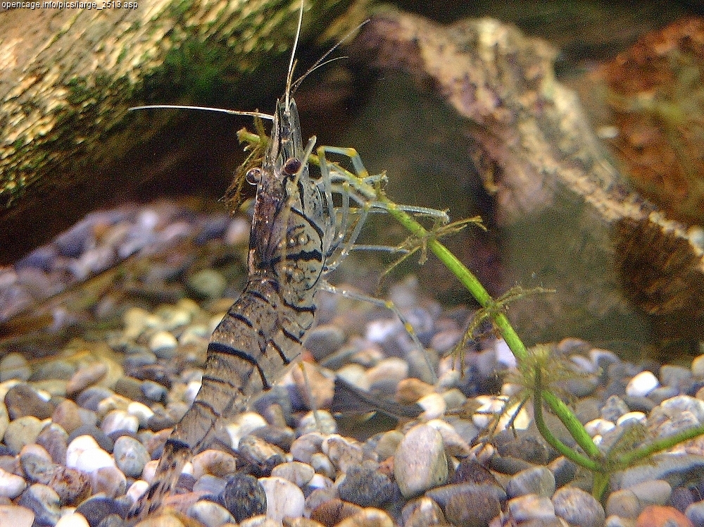 スジエビ Species Palaemon paucidens (De Haan, 1844) Familia Palaemonidae Location a display of subway station at Chuou-ku, Kobe, Japan Other photos; Copyright OpenCage